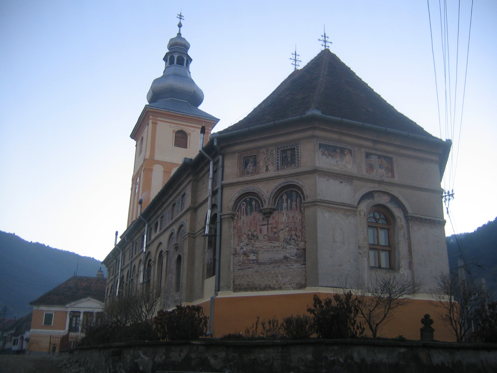 Church in Rasinari, Sibiu County, Romania